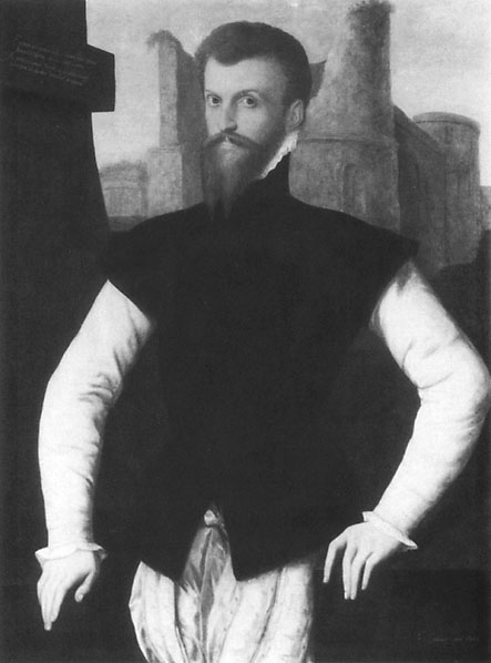 Edward Courtenay, 1st Earl of Devon (c1527-1556).